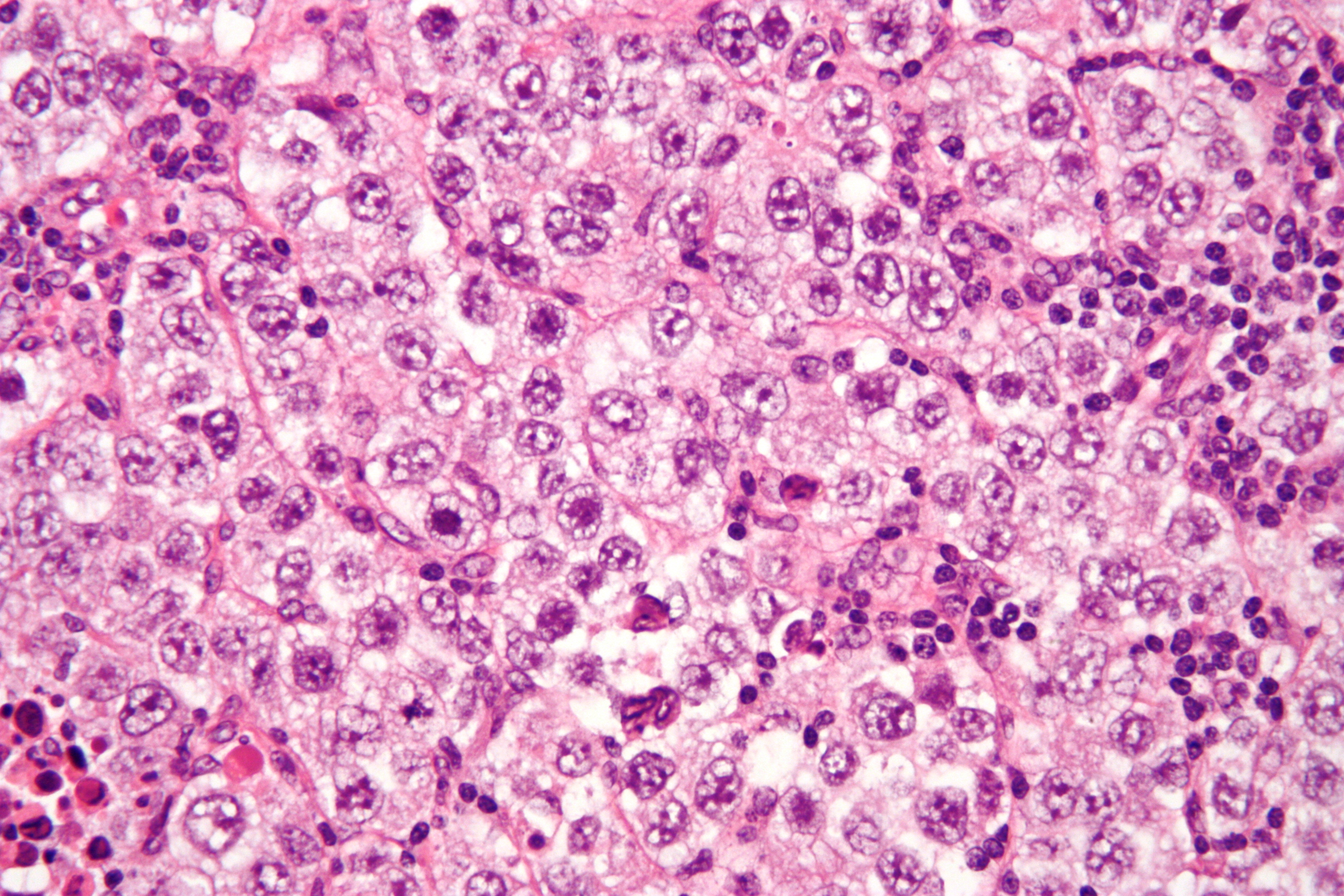 Micrograph of a seminoma. H&E stain. Features: Lymphocytes. Tumour cells with a fried egg-like appearance: Central nucleus with nucleolus. Clear cytoplasm. Well-defined cell borders. Related images Intermed. mag. High mag. Seminoma in the rete testis.